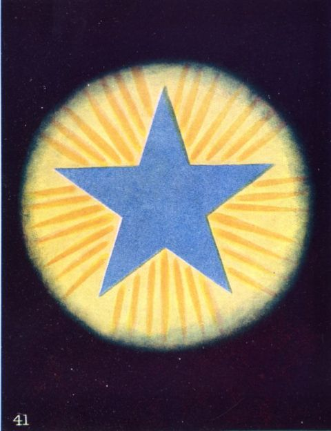 A thought form from Thought-Forms, by Annie Besant & C.W. Leadbeater.